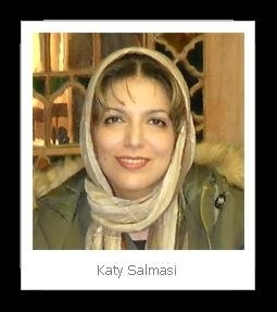 This image I, K Hossein Zadeh, from a personal album